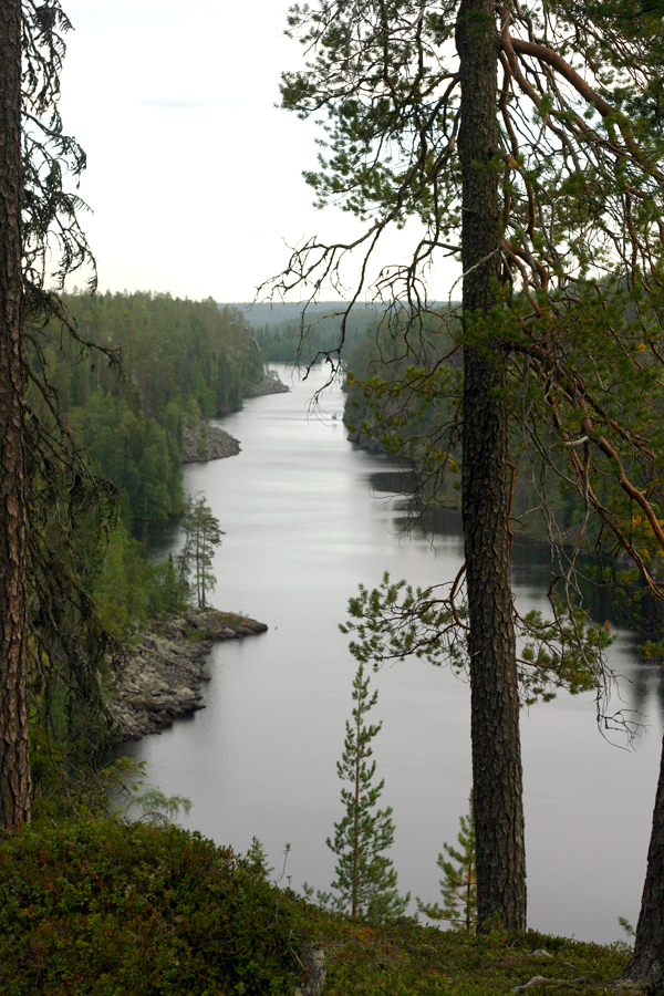 Canyon of Julma Ölkky lake in Kuusamo, Finland